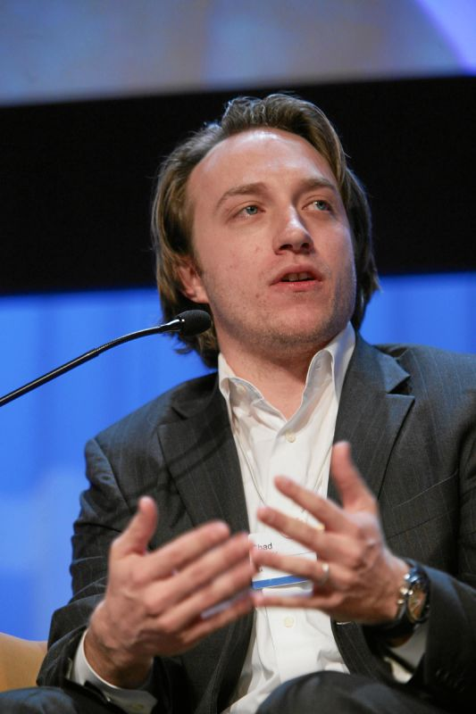 Chad Hurley at the World Economic Forum Annual Meeting in Davos, Switzerland, 2007. Copyright World Economic Forum (